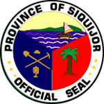 Provincial seal of Siquijor, Philippines.